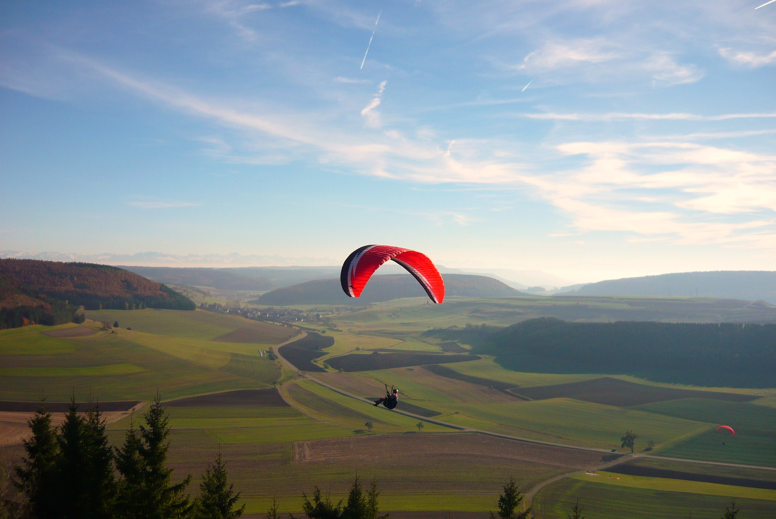 View from the Fürstenberg with the village Hondingen and in the background the alps